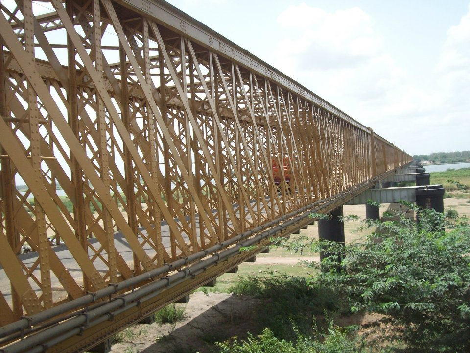 SILVER JUBILEE RAILWAY BRIDGE BHARUCH